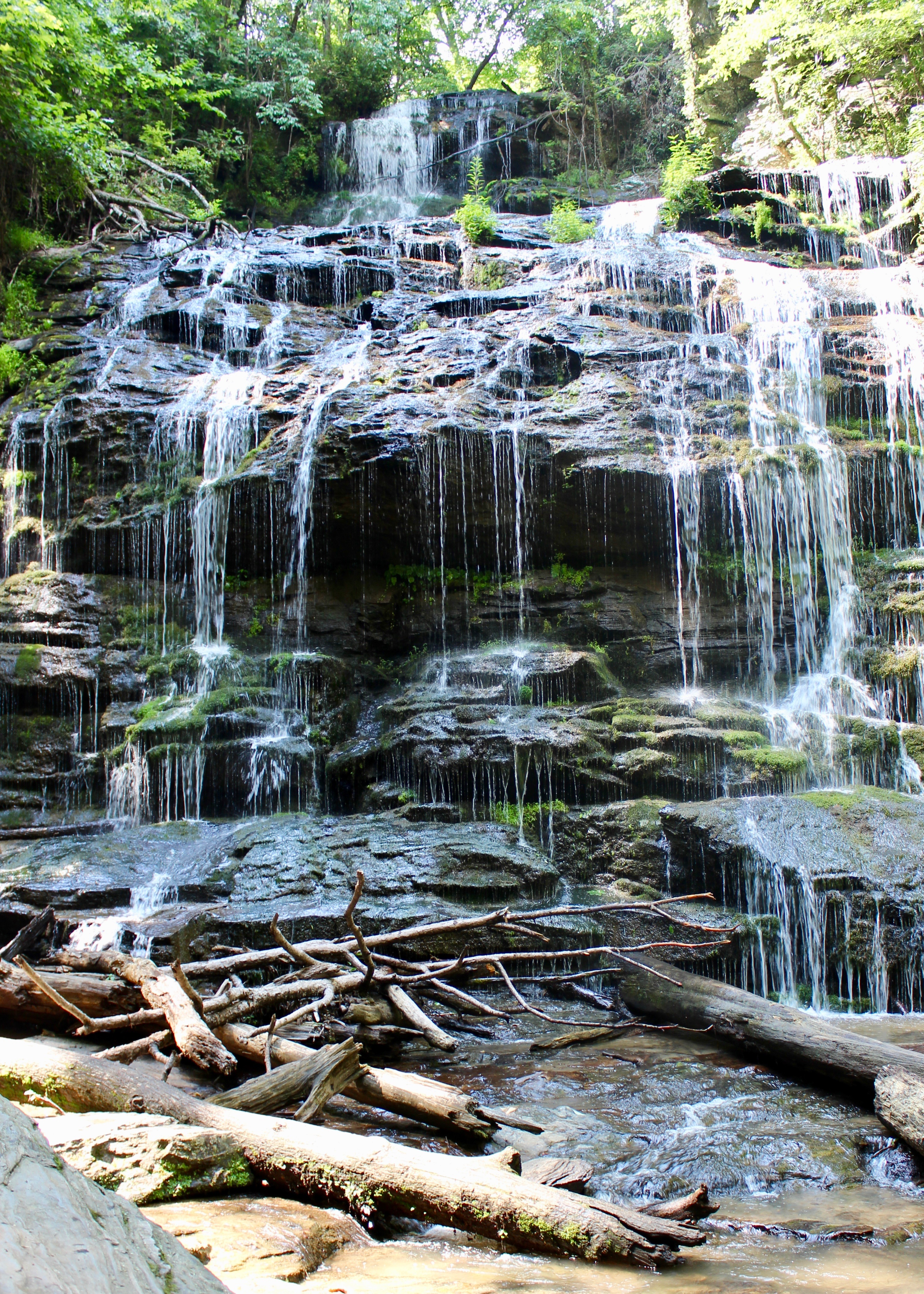 Station Cove Falls, Oconee County, South Carolina, USA